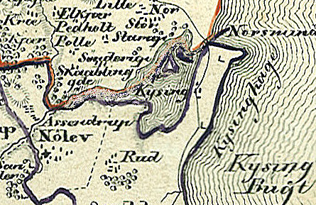 Kysing Fjord, Århus Amt 1826, Denmark.